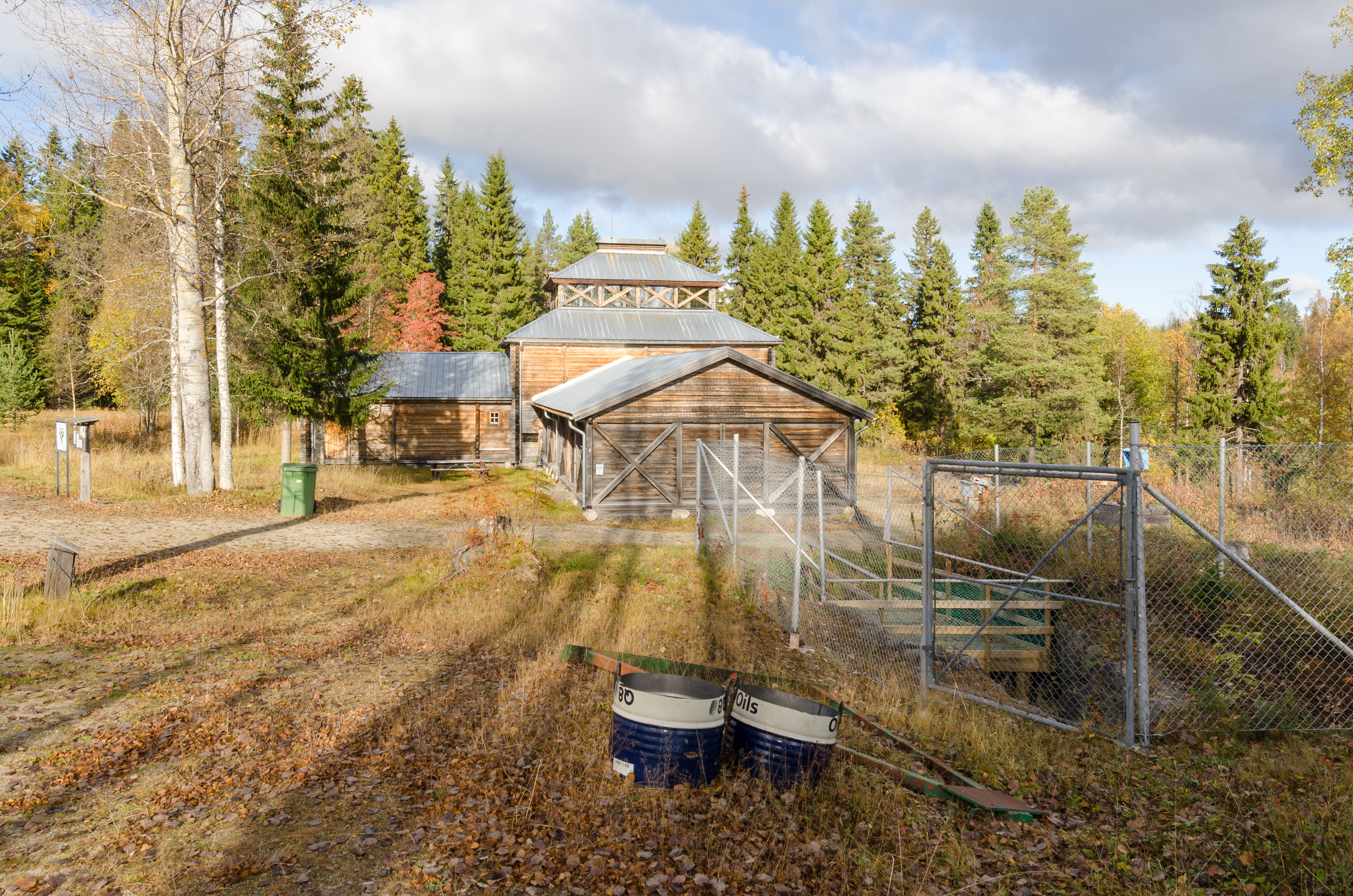 The site of former Los cobalt mine. Ljusdal Municipality, Gävleborg County, Sweden. In 1751, the swedish scientist Axel Cronstedt found evidence of Nickel when examining ore from the mine.